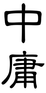 "Doctrine of the Mean" in clerical chinese script.